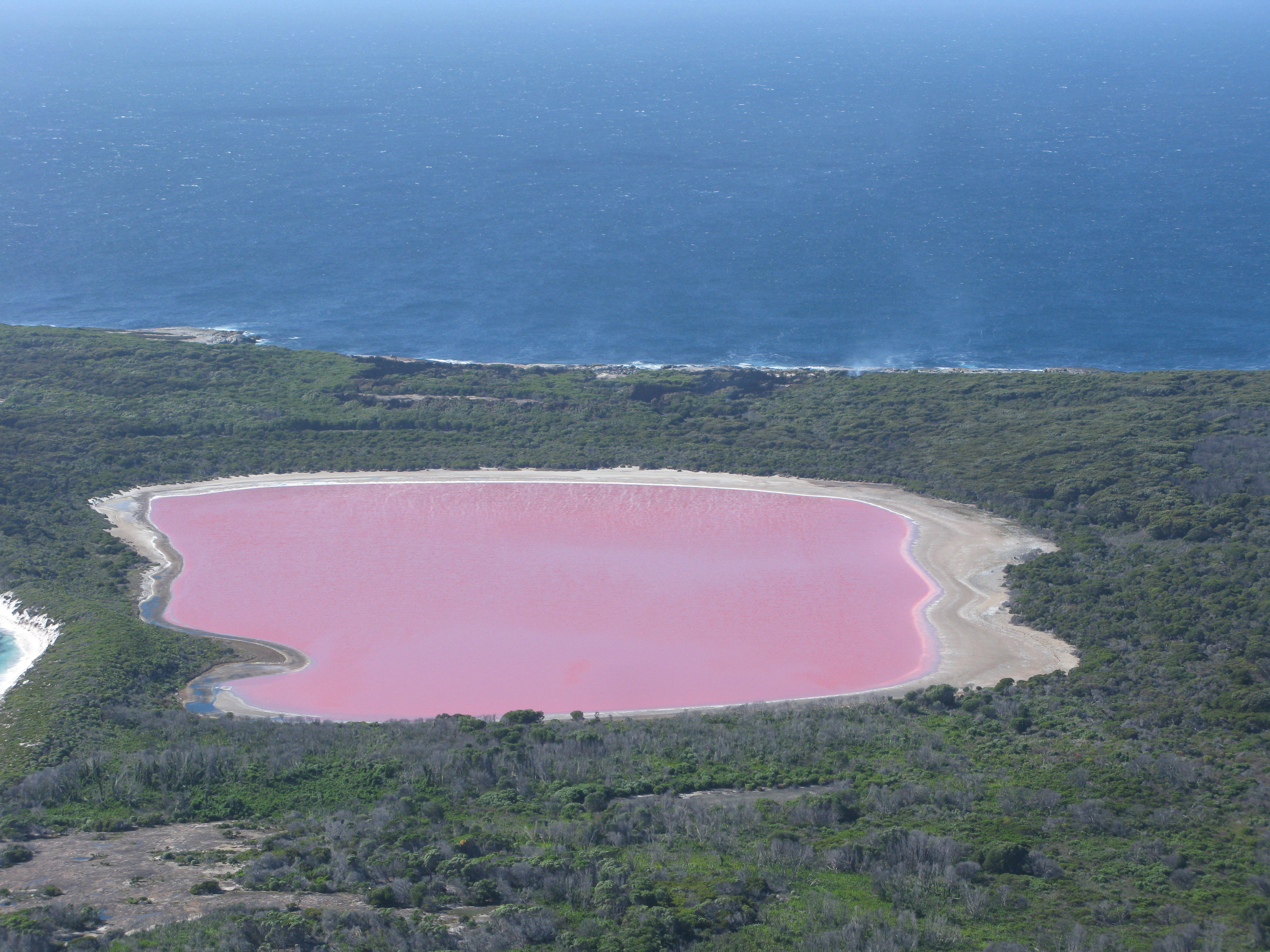 The Lake Hillier, Middle Island, Recherche Archipelago Nature Reserve, in Western Australia, is a saline lake notable for its pink color, April 2011.